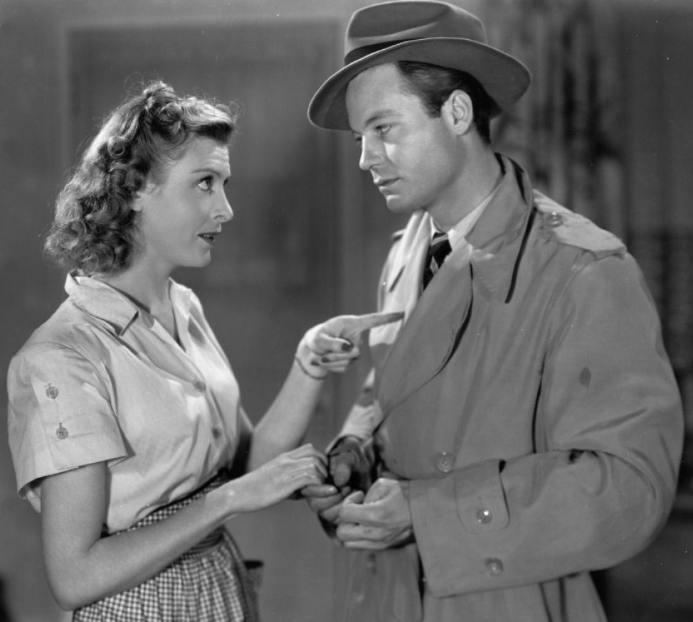 Ann Doran & DeForest Kelley in Fear in the Night - cropped screenshot